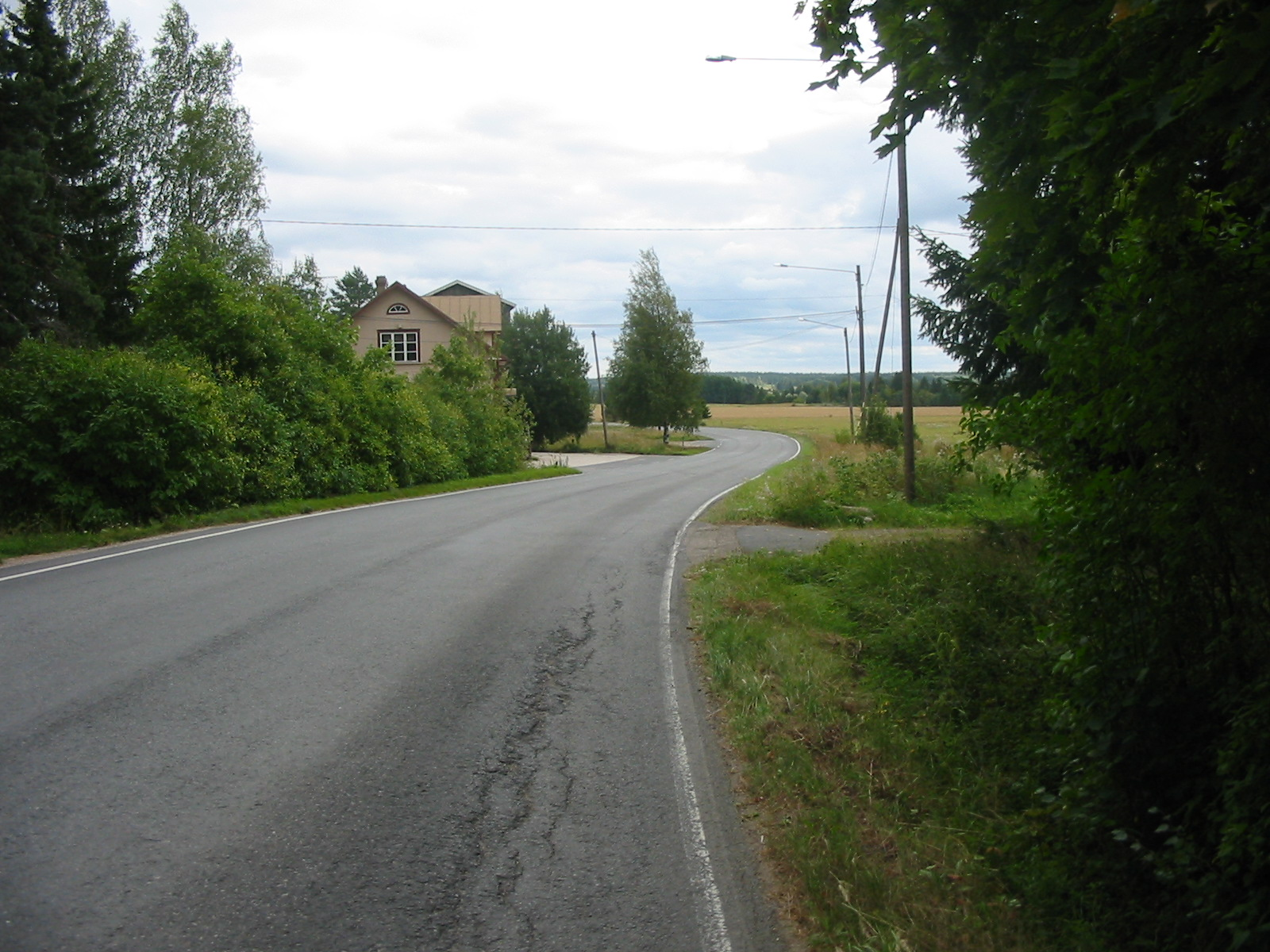 Connecting road 2810, part of the Häme Oxen road, in Pitkäjärvi, Somero